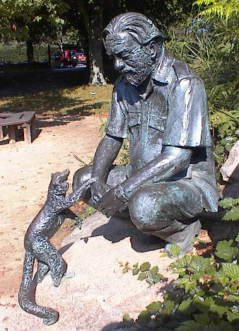 Statue of Gerald Durrell at Jersey Zoo, Jersey , sculpted by John Doubleday